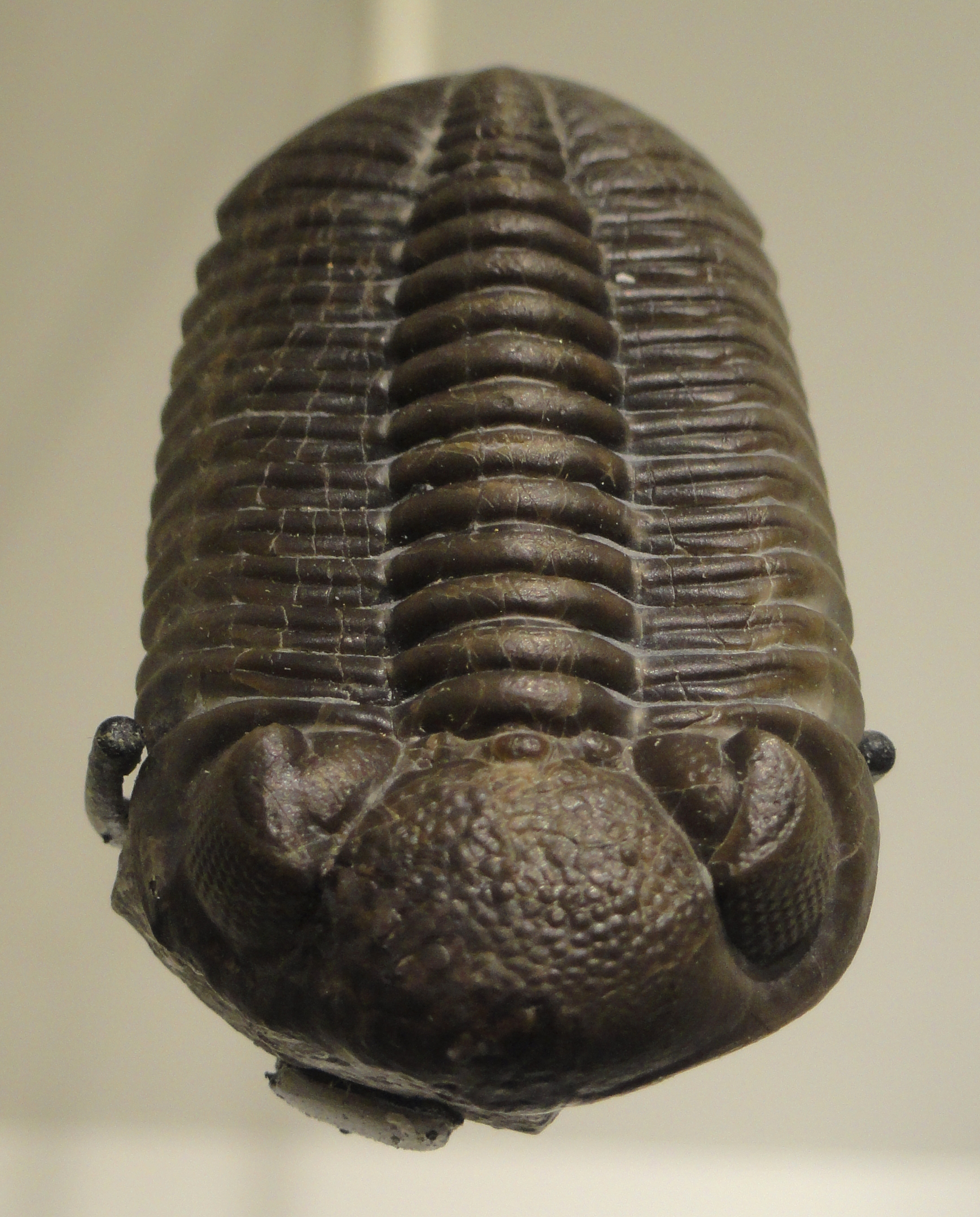 Exhibit in the Houston Museum of Natural Science, Houston, Texas, USA.